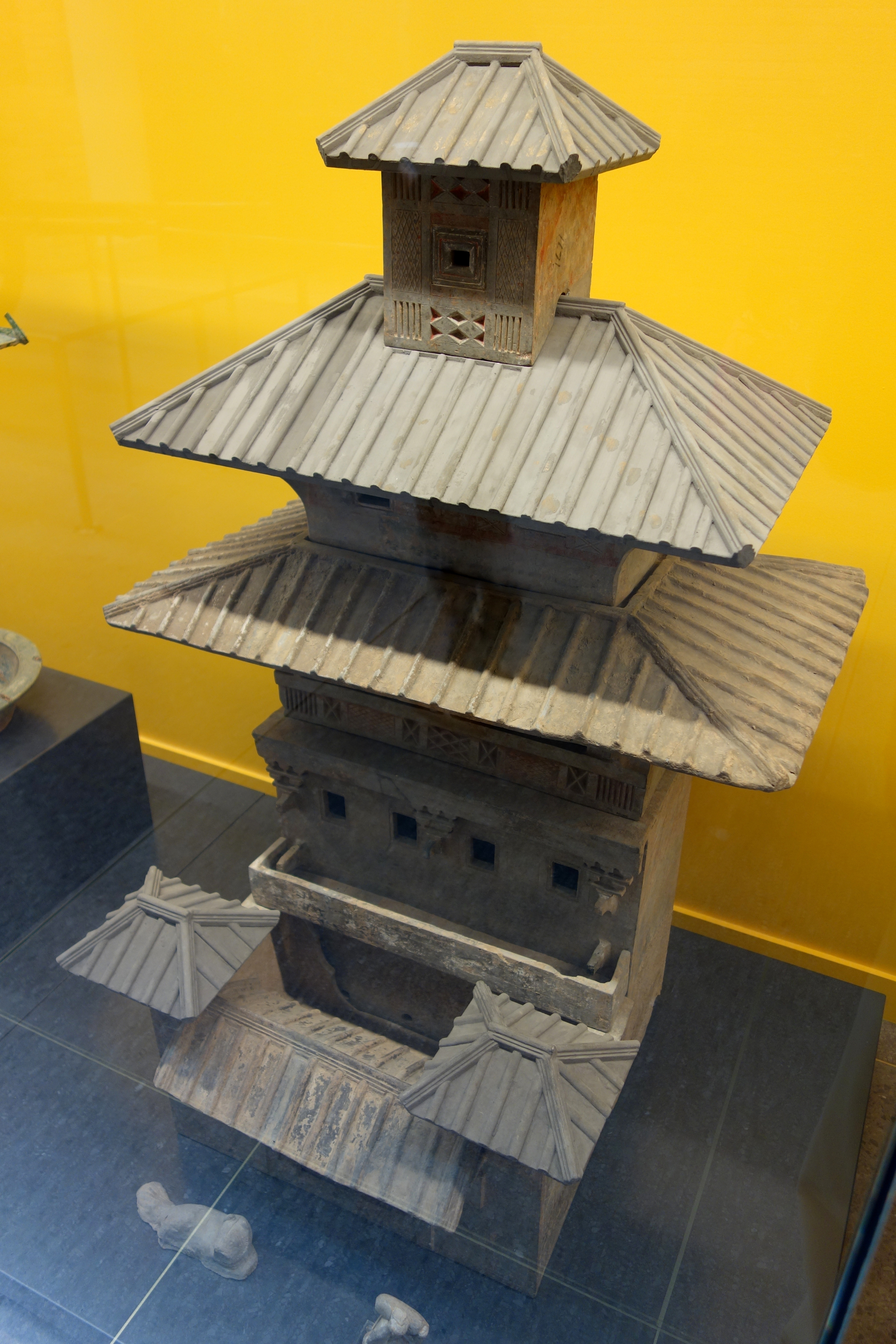 Exhibit in the Royal Ontario Museum, Toronto, Ontario, Canada. This work is old enough so that it is in the public domain.